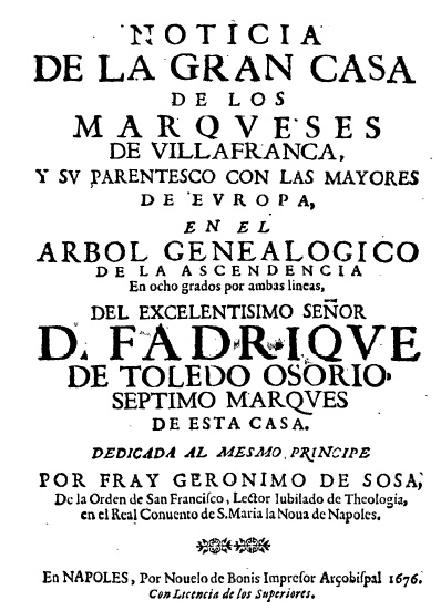 Jerónimo de Sosa's book Noticia de la Gran Casa de los marqueses de Villafranca, published at Naples, 1676